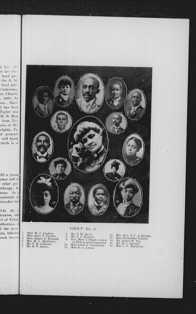 Reverend Mary J. Small is pictured, the first woman to be ordained an Elder in the A.M.E. Zion Church.